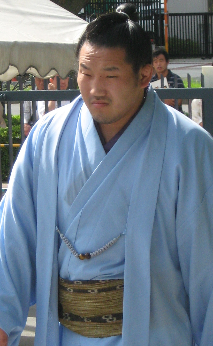 Taken outside Sep 2008 tournament